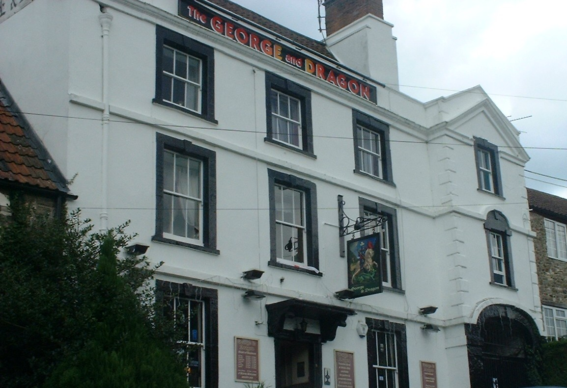 George and Dragon at Pensford. Taken by Rod Ward 27th April 2006